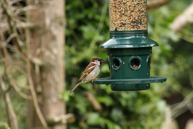 Sparrow eating a mix of seeds within a garden